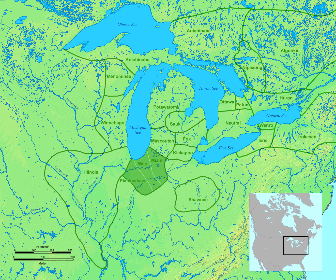 Tribal territory of Miami, Wea and Piankashaw probably before 1700